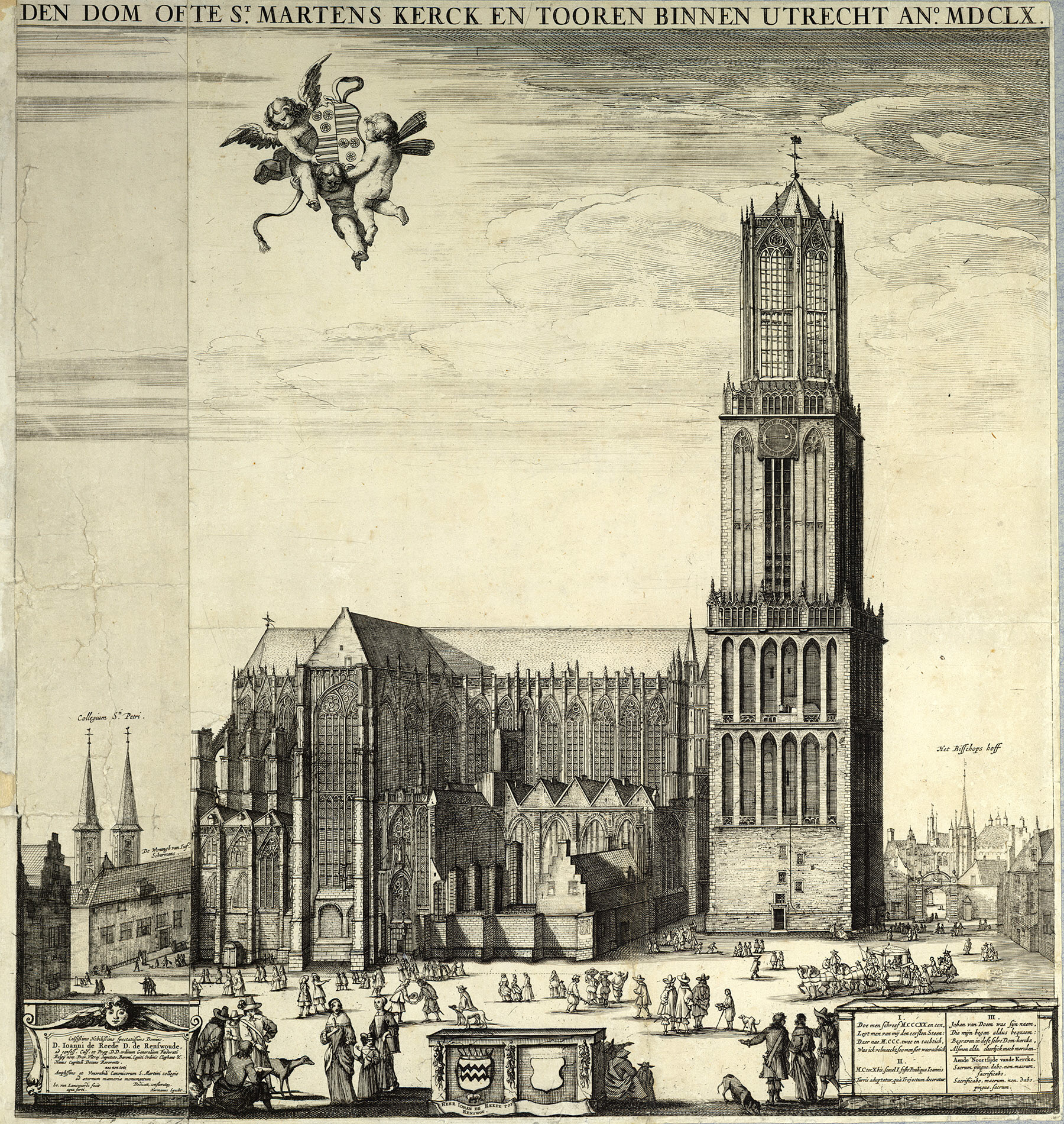 Dom cathedral Utrecht